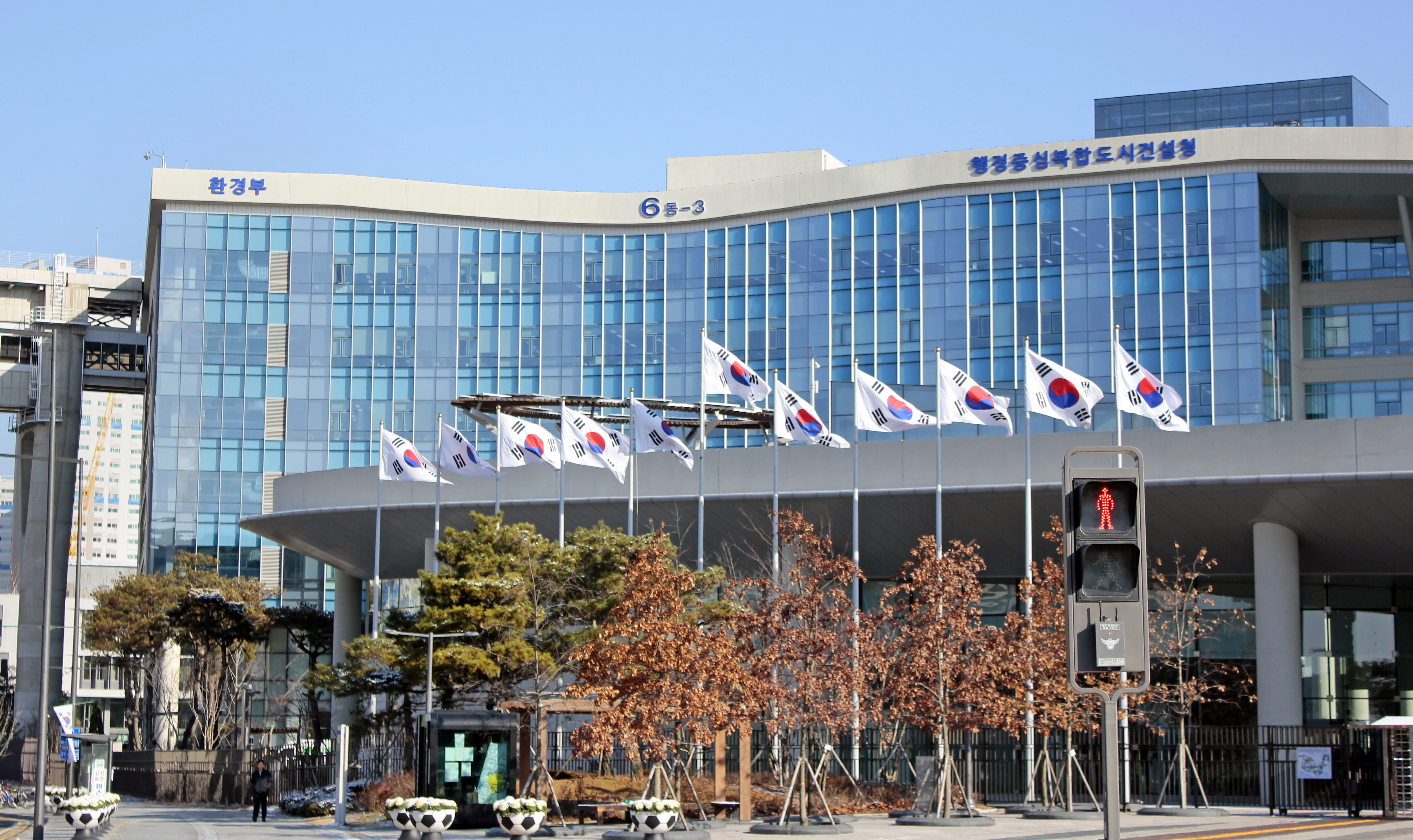 Multifunctional Administrative City Construction Agency&Ministry of Enviornment @Government Complex Sejong #6